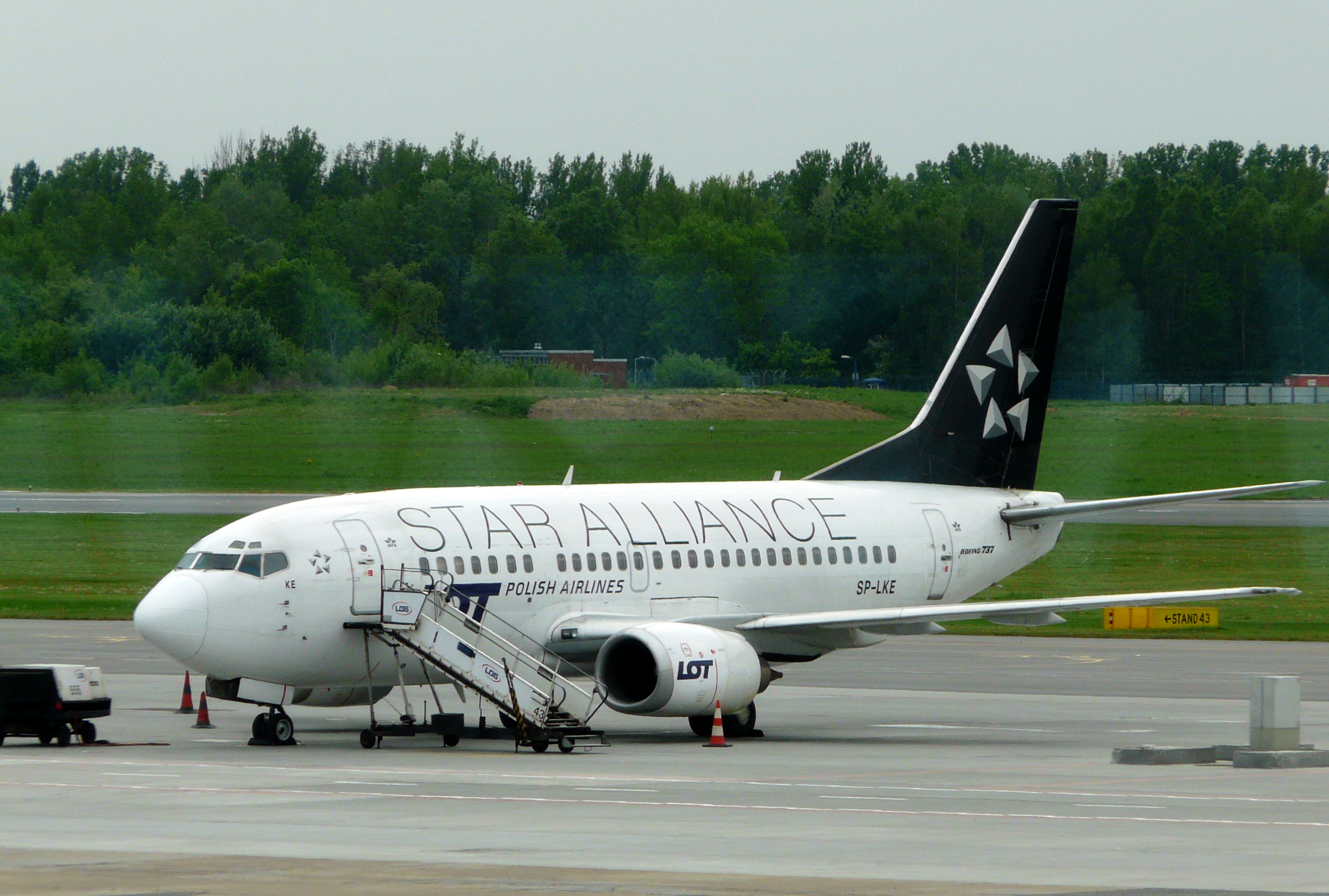 The Boeing 737-500 of LOT, registered SP-LKE, at Warsaw airport.